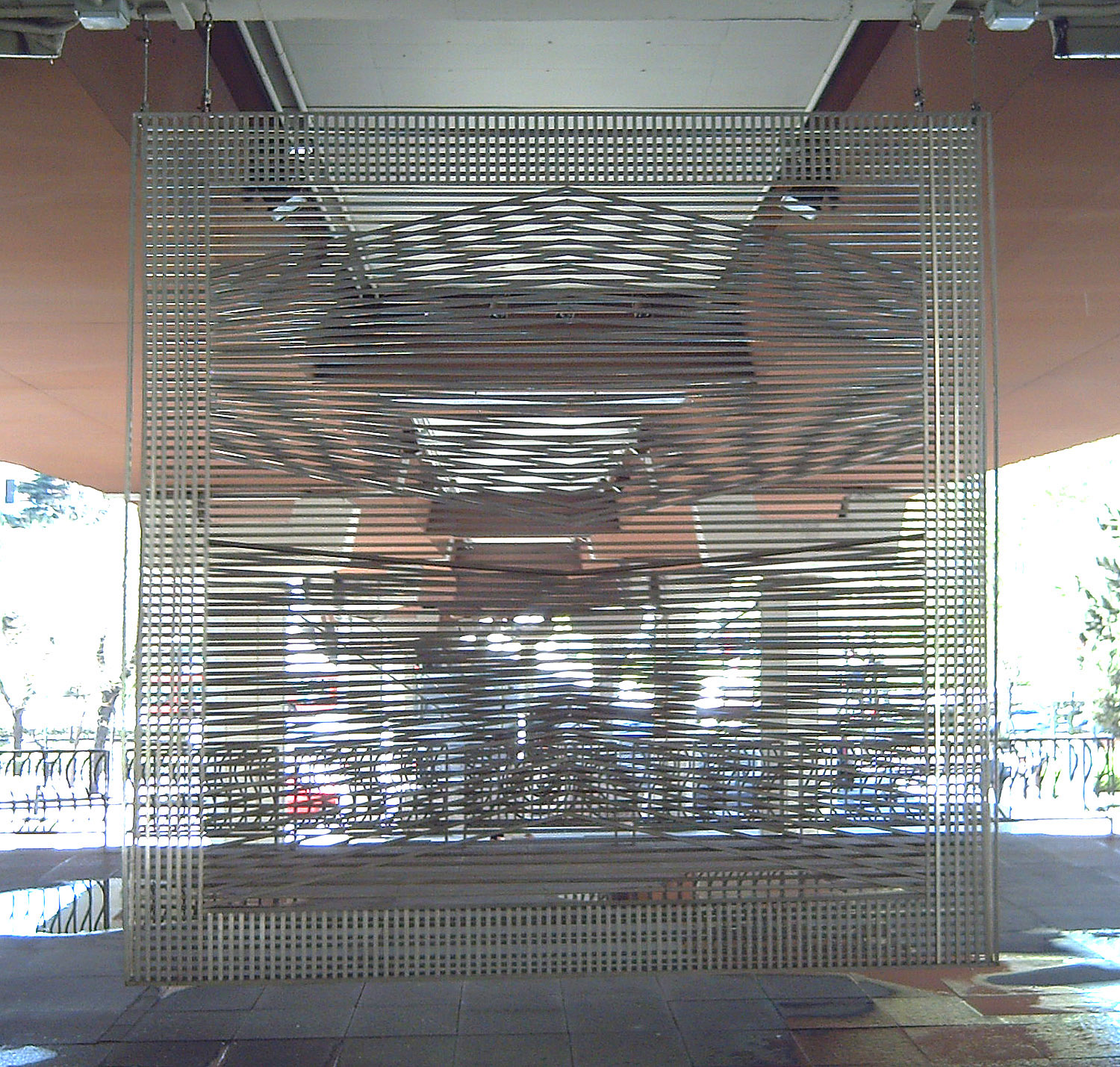 Móvil (Mobile, 1972). "Moiré effect" mobile by Eusebio Sempere (1923–1985). 300 x 300 x 20 cm. Stainless steel. It is at the Open-Air Sculpture Museum at 41st Paseo de la Castellana (avenue) in Madrid (Spain).